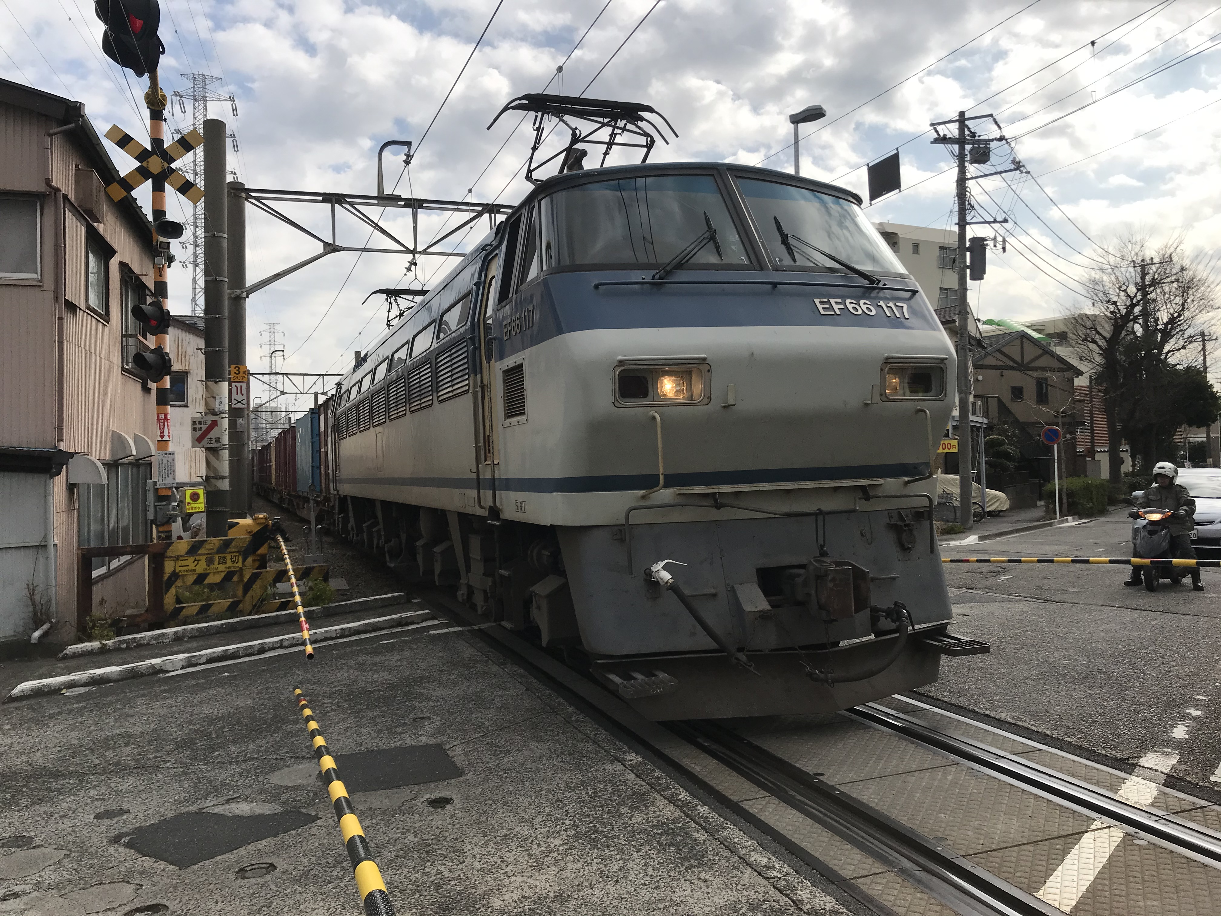 A container train running on Shitte short cut line hauled by JR Freight EF66 117